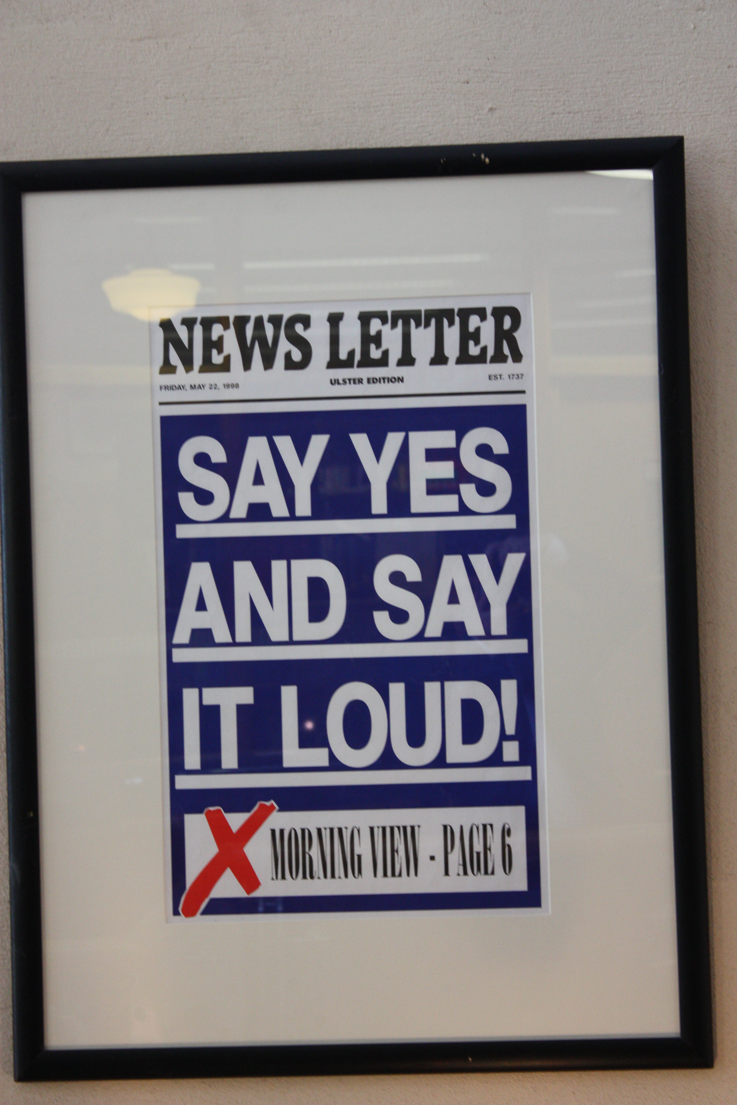 "Say Yes and Say it Loud" (Belfast Newsletter, 1998), Troubled Images Exhibition, Linen Hall Library, Donegall Square North, Belfast, Northern Ireland, August 2010